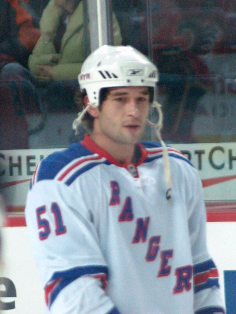 Fedor Tyutin of the New York Rangers in a pre-game skate in Calgary